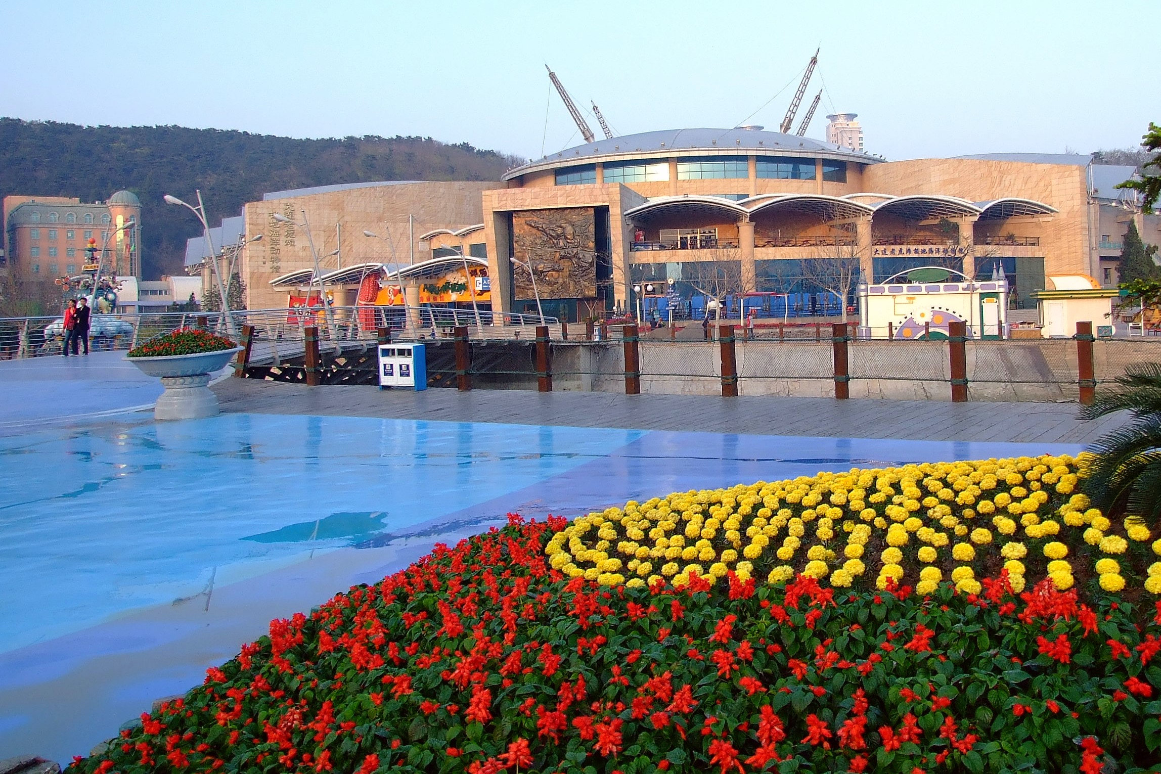 The Atigerbeach polar ainmal pavilion in Dalian,China